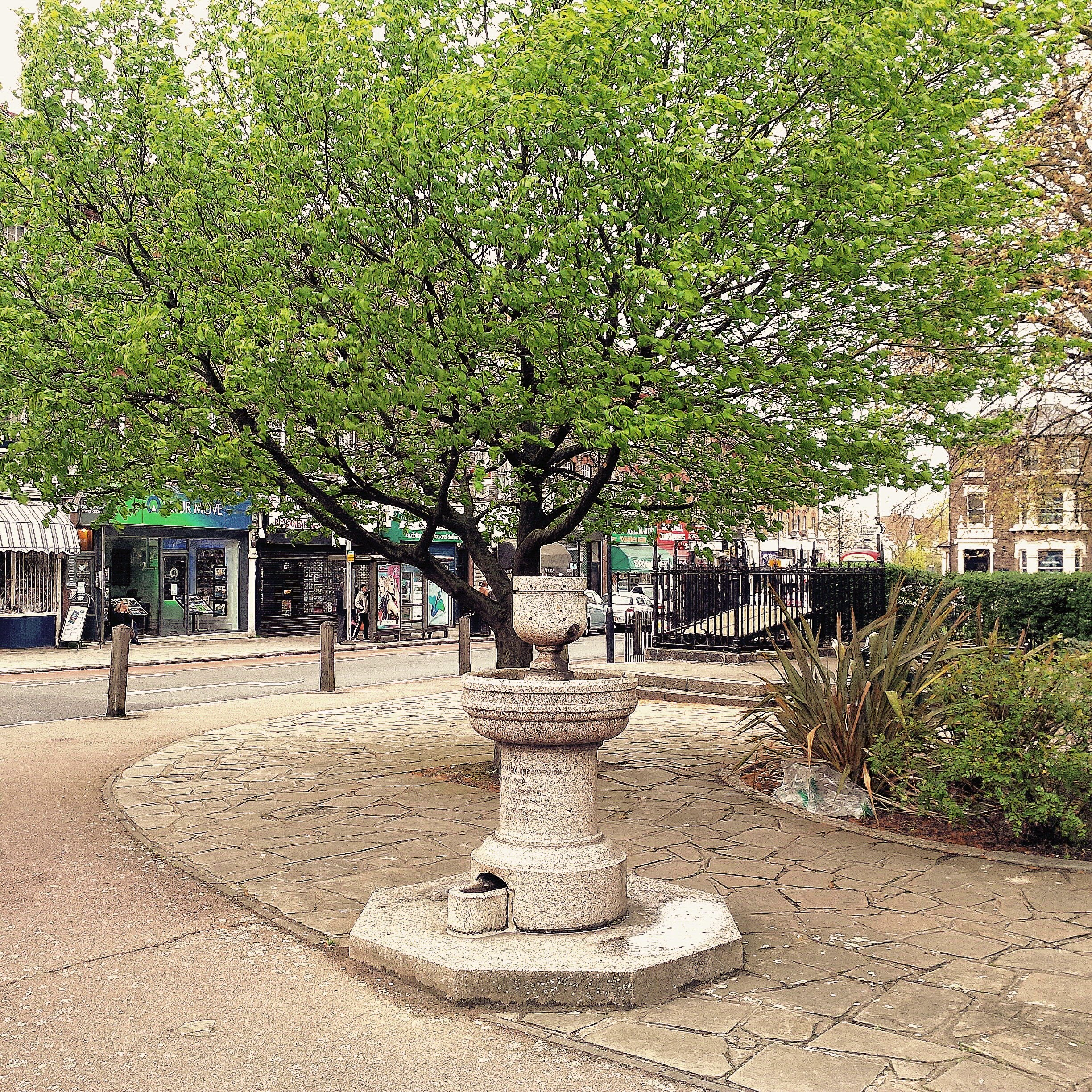 Bartley Park in Blackheath, London (2014).